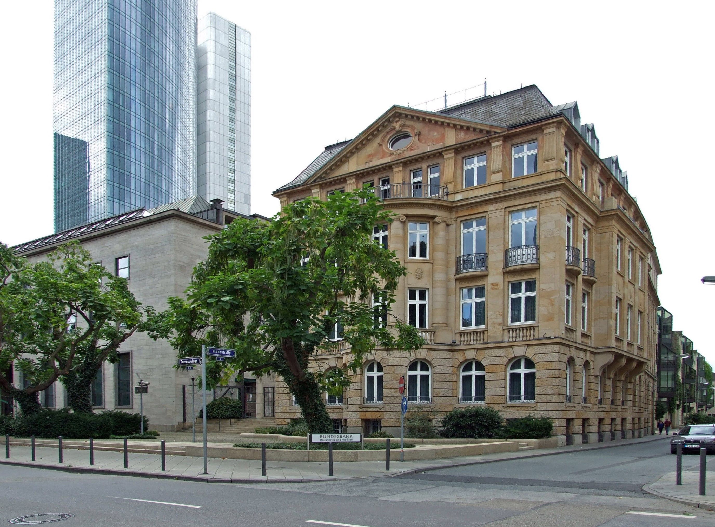 Regional office Frankfurt, Deutsche Bundesbank (German Federal Bank), Taunusanlage, Frankfurt am Main Bahnhofsviertel